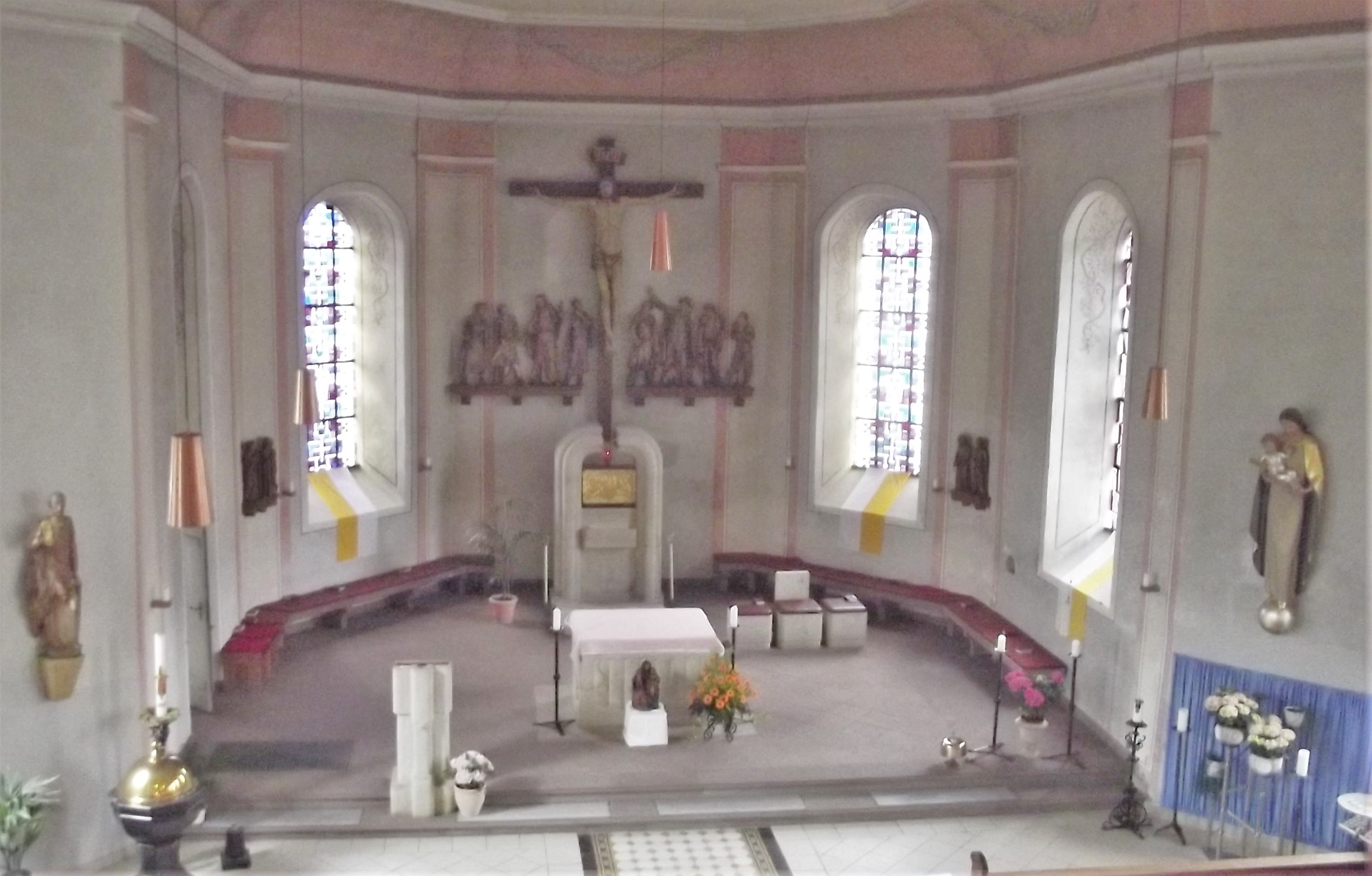 Interior of the roman catholic church in Furschweiler, Saarland